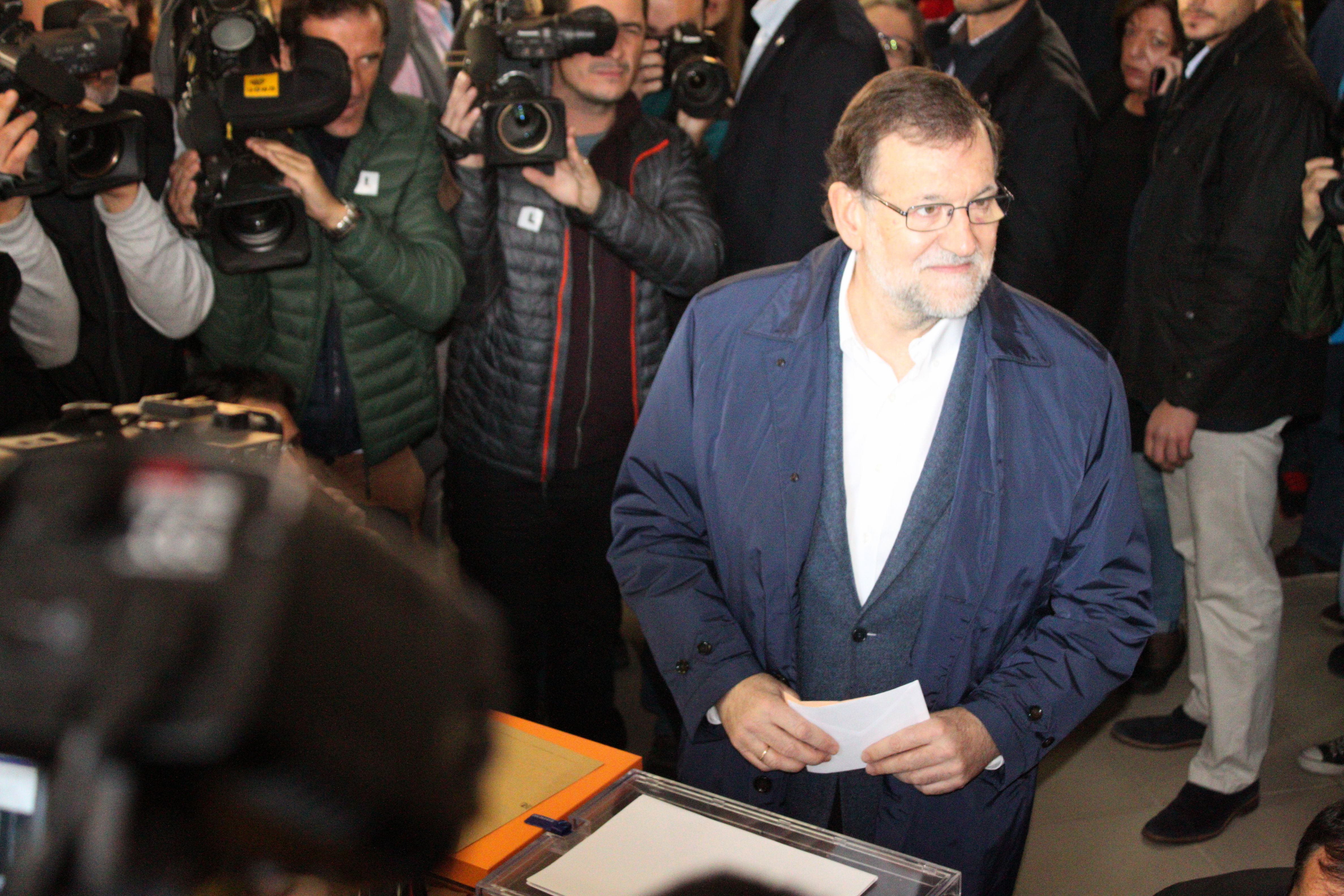 Mariano Rajoy votando el 20D.